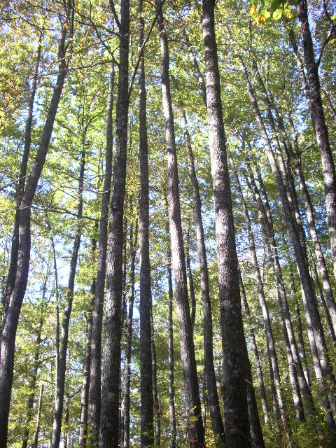 Quercus petraea